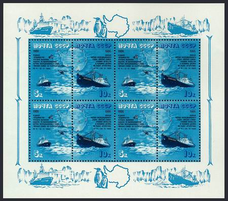 Stamp of USSR